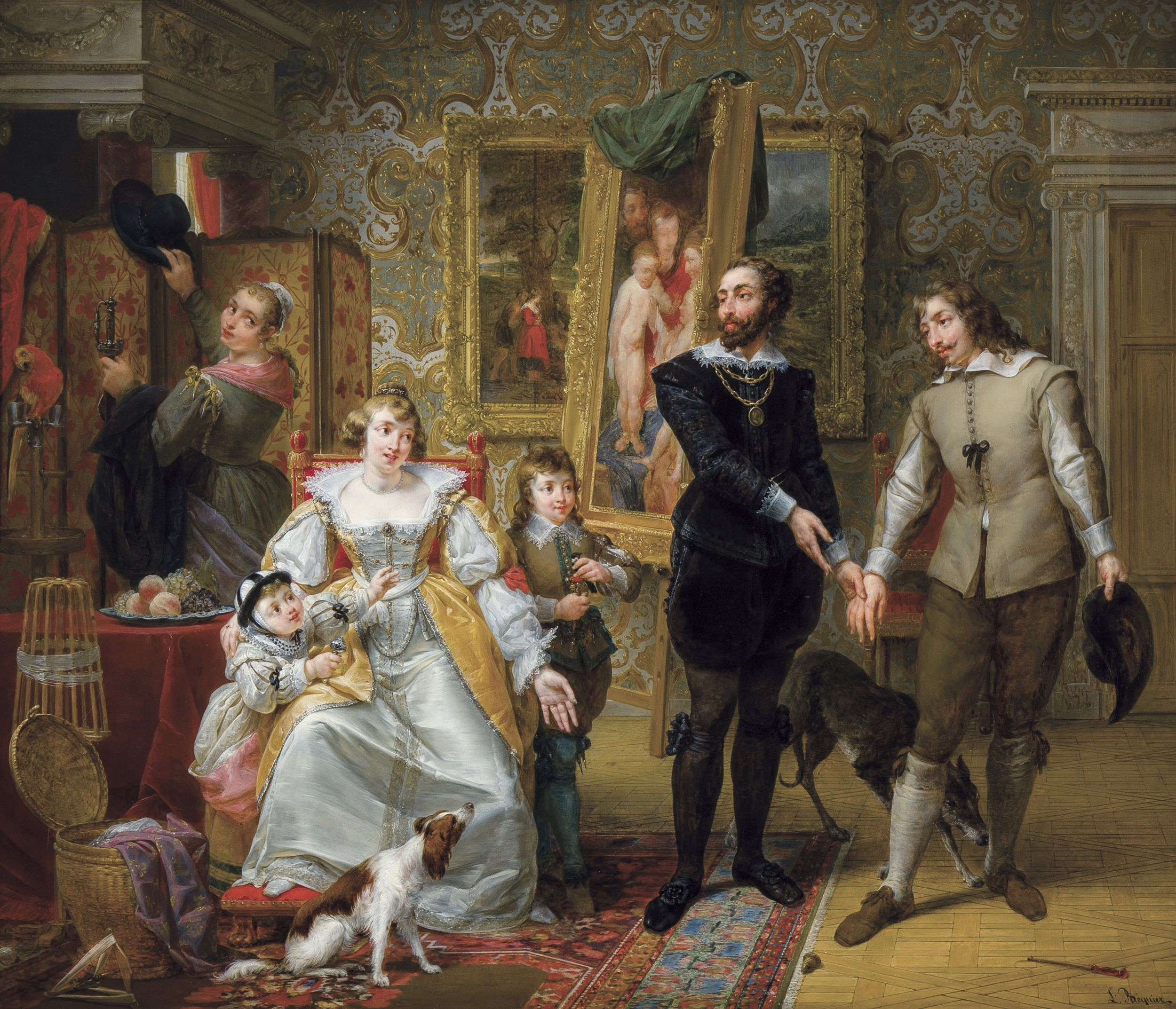 Anthony Van Dyck visiting Peter Paul Rubens and family